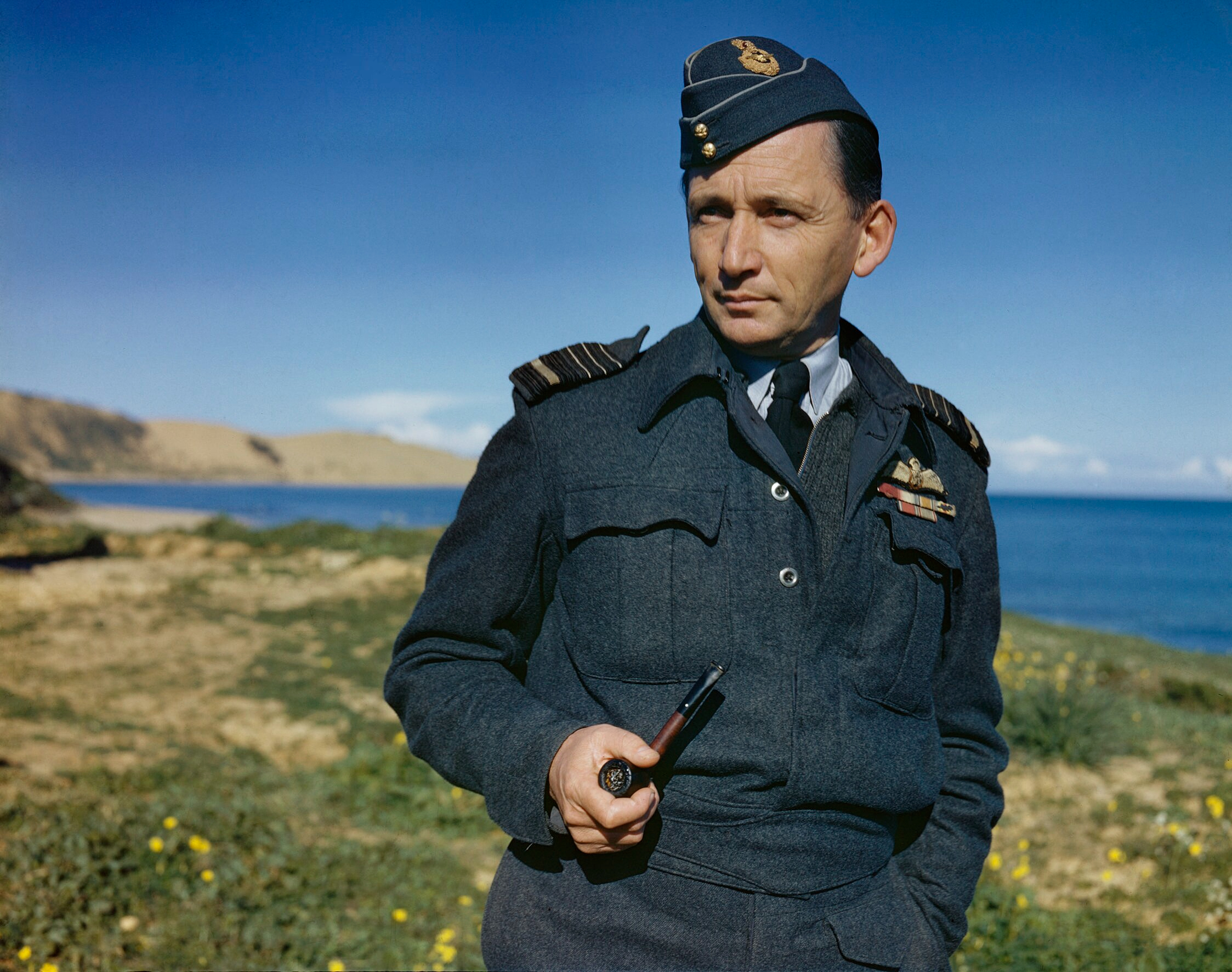 Air Chief Marshal Sir Arthur Tedder on the Italian coast. Later that month he returned to Britain to take up his appointment as Deputy Commander of the Allied Expeditionary Forces then being assembled for the cross-channel invasion.